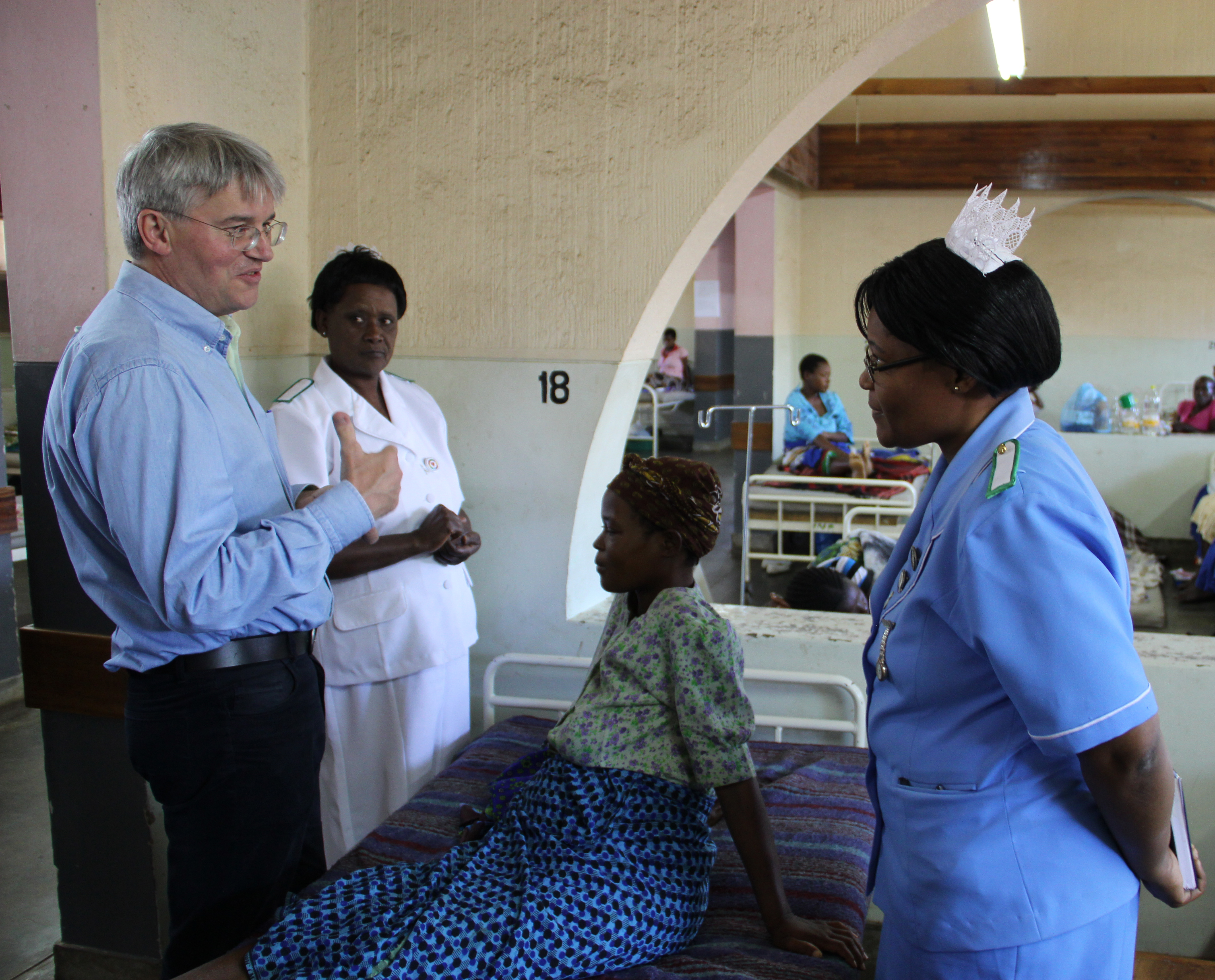 Secretary of State Andrew Mitchell speaking with mums and midwives at Queen Elizabeth Central hospital, Malawi. International Development Secretary Andrew Mitchell said: "It is a shocking fact that pregnancy can be a death sentence for many girls and women in the developing world. "That is why the British Government and the Gates Foundation are hosting a summit in London next month which we hope will cut in half the number of girls and women who want contraception to delay or space their pregnancies but are unable to access it." Background On 11 July 2012 the UK Government and the Bill & Melinda Gates Foundation will host a groundbreaking summit to cut in half the current number of women and girls in the world’s poorest countries without access to contraception, but who wish to avoid pregnancy or space their children. Every woman and girl deserves the opportunity to to determine her own future. Contraceptives give the world's poorest women the power to decide if and when to have another child. Find out more at To follow the London Summit on Family Planning visit Picture: Roger Heath/Department for International Development Terms of use This image is posted under a Creative Commons - Attribution Licence, in accordance with the Open Government Licence. You are free to embed, download or otherwise re-use it, as long as you credit the source as Roger Heath/Department for International Development'.